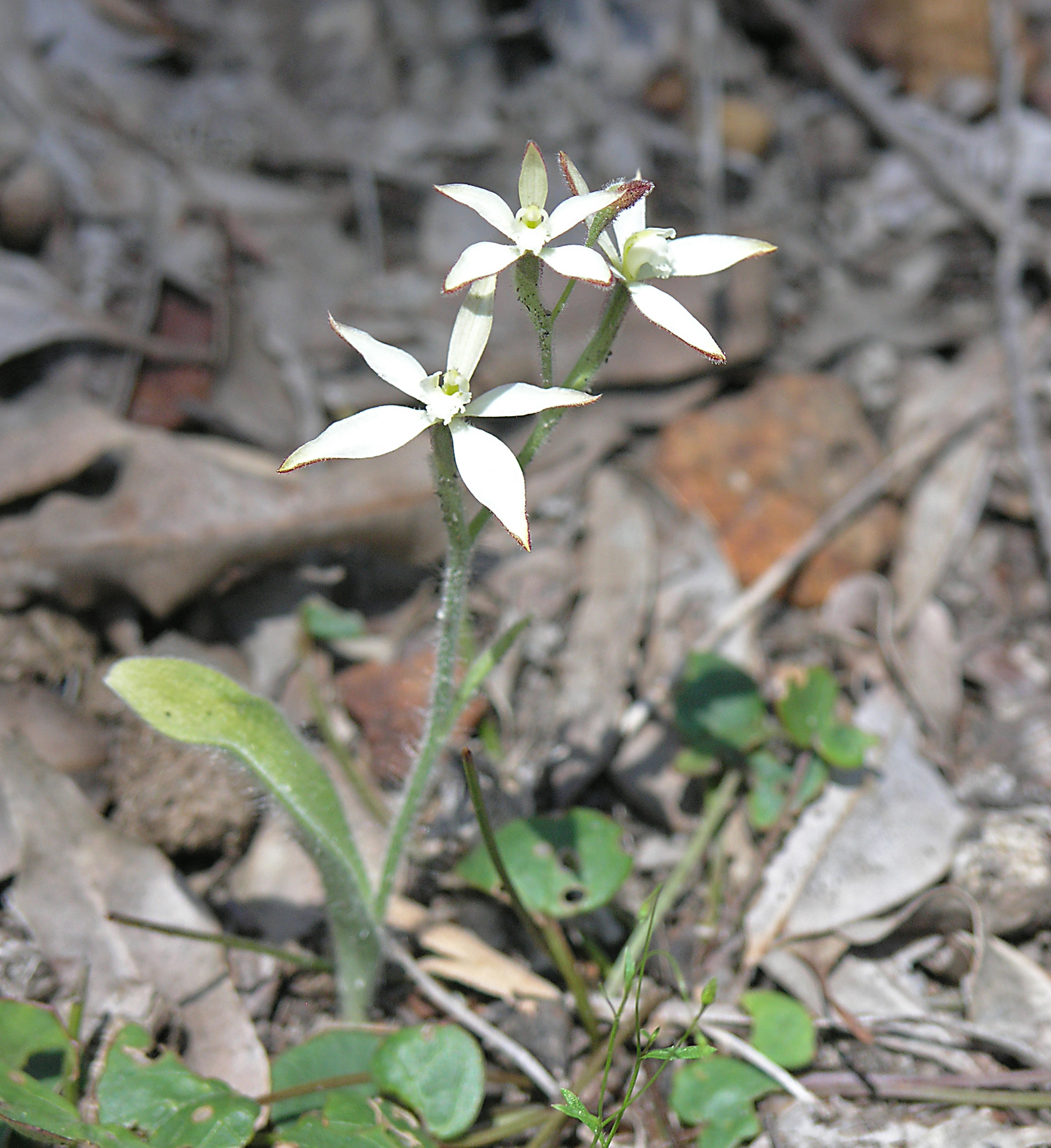 Unknown flower taken on a bush walk, Jarrahdale, Perth, Western Australia. I will post more information about the flower if I can find out more. Caladenia marginata